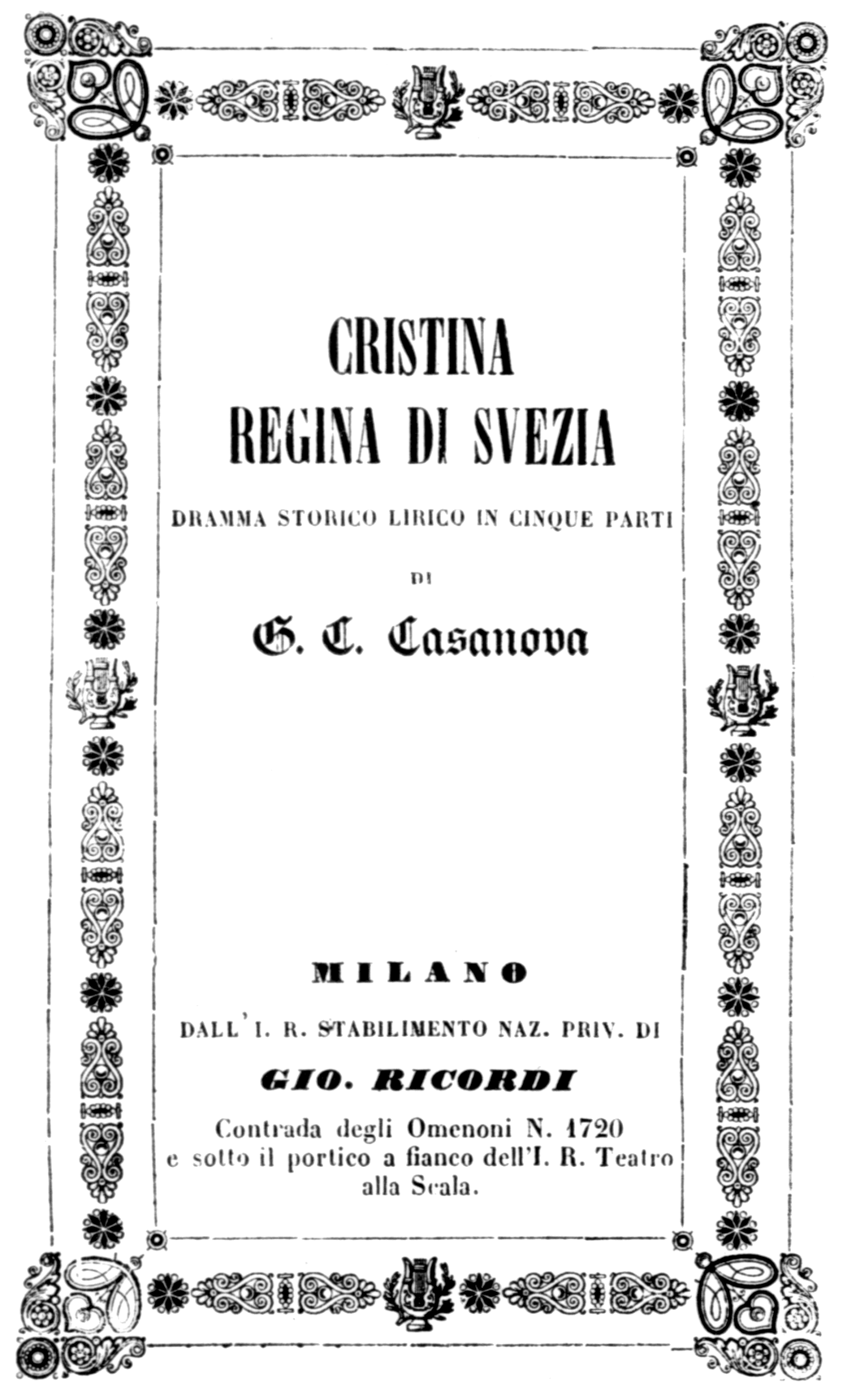 Jacopo Foroni - Cristina, regina di Svezia - cover of the libretto, Milan 1850